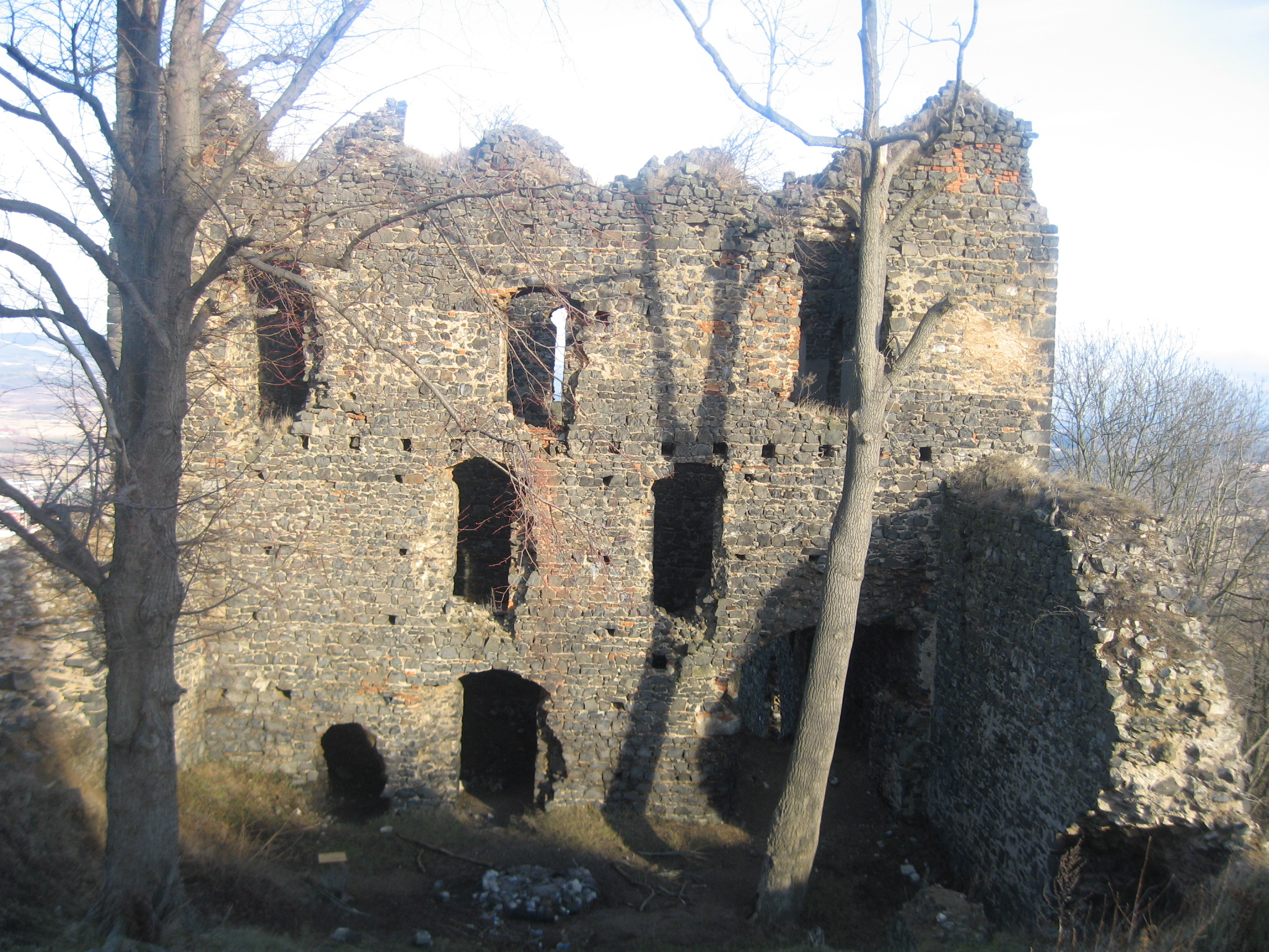 Lestkov (Egerberg), Castle in the Czech Republic, Rest of Palace